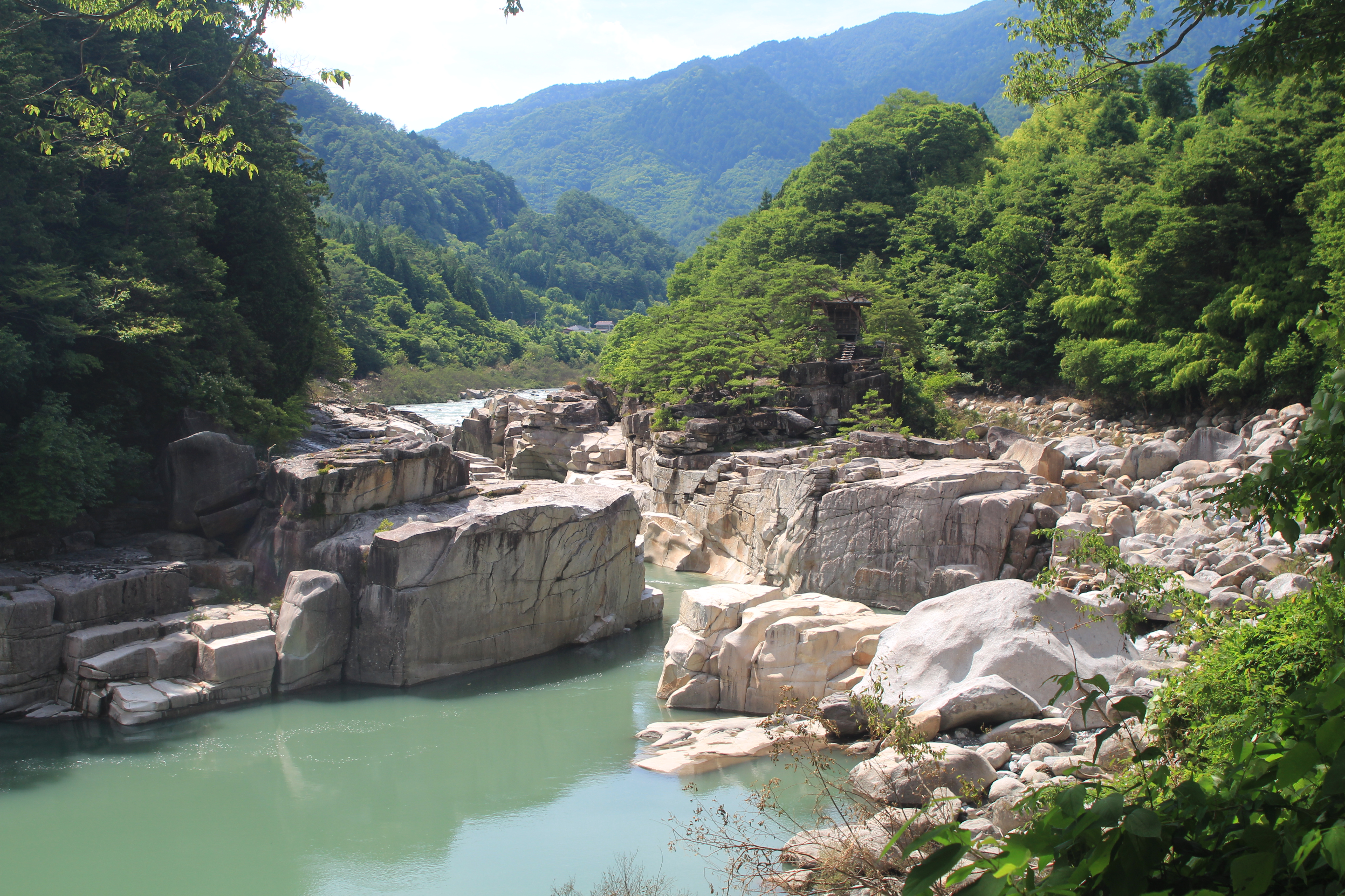 Nezame no Toko in Agematsu, Nagano Prefecture, Japan.